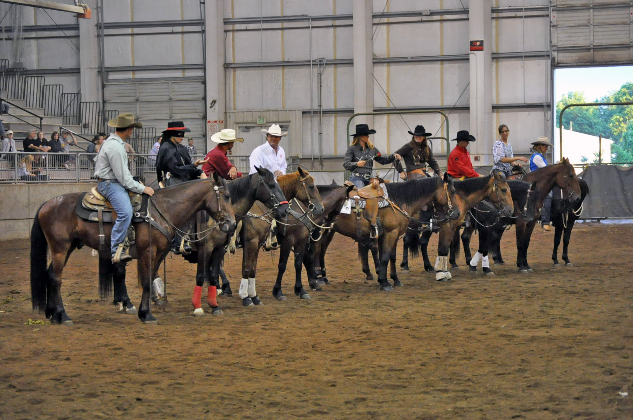 Oregon’s Extreme Mustang Makeover was held in Albany, Oregon, June 29-July 1, 2012. Photo by Tara Martinak, Burns District, Bureau of Land Management